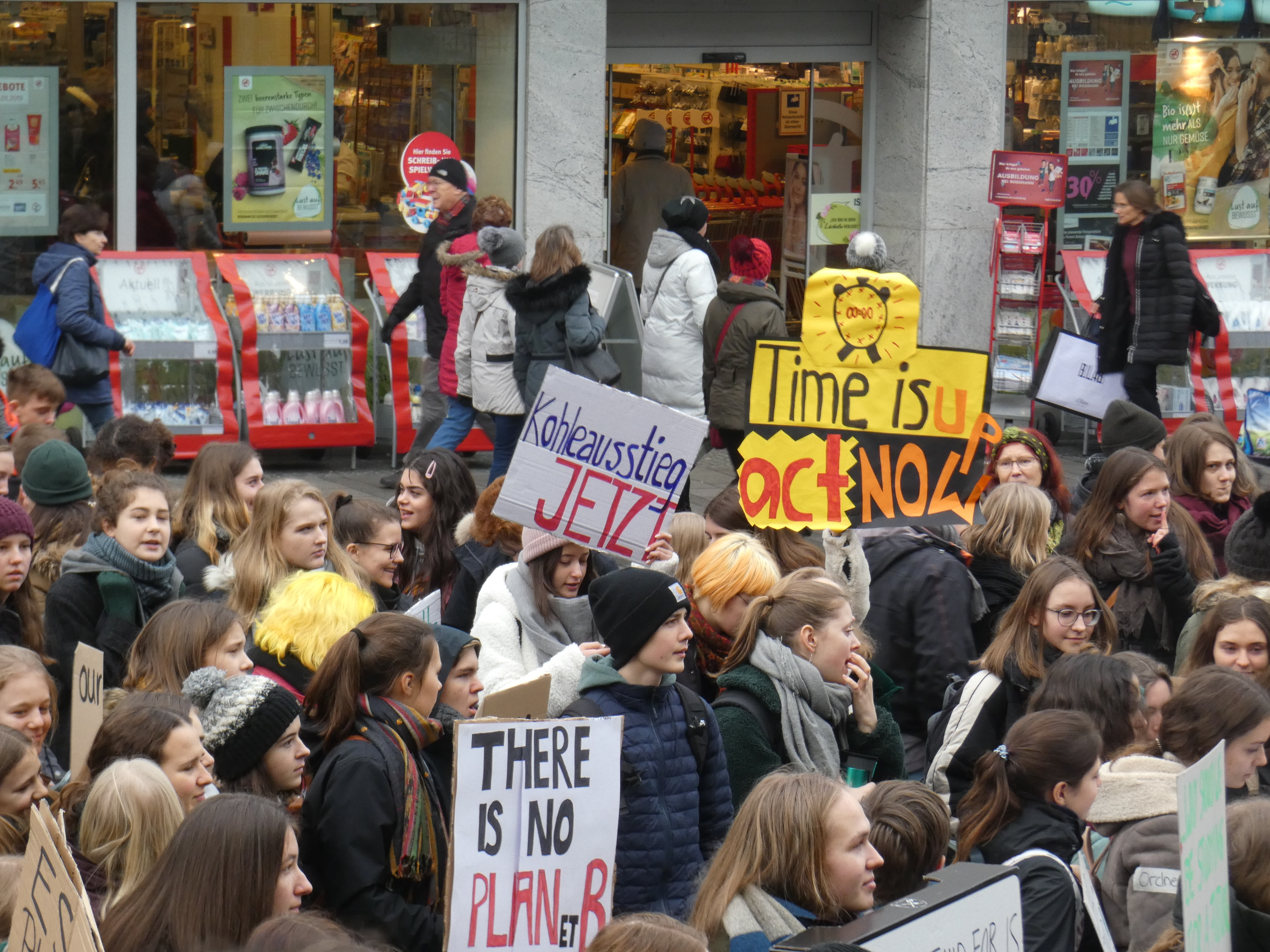 Fridays for Future, in Kassel on 1 February 2019.